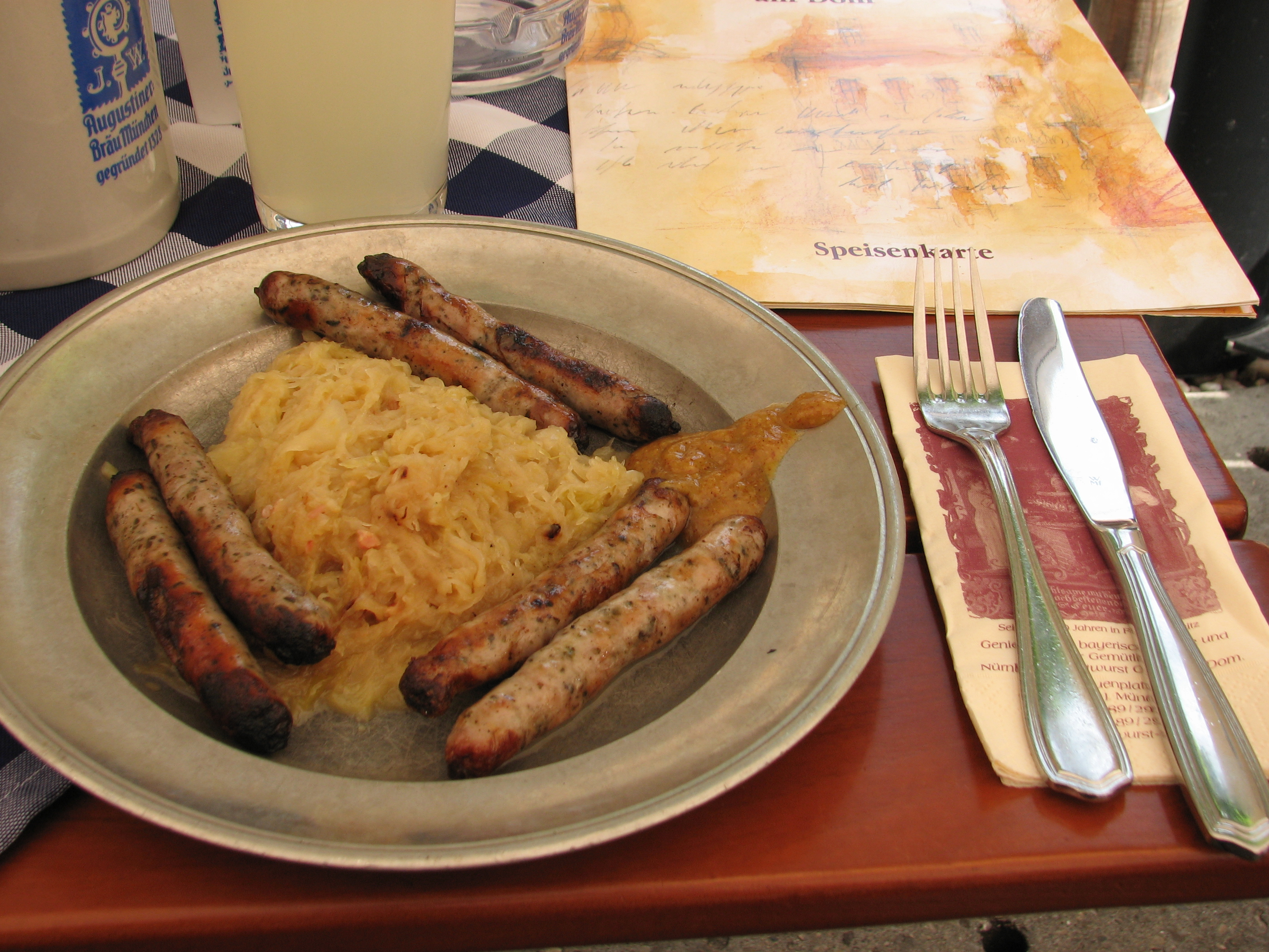 A plate of pork bratwurst at Bratwurst Glöckl, Frauenplatz 9, Munich.